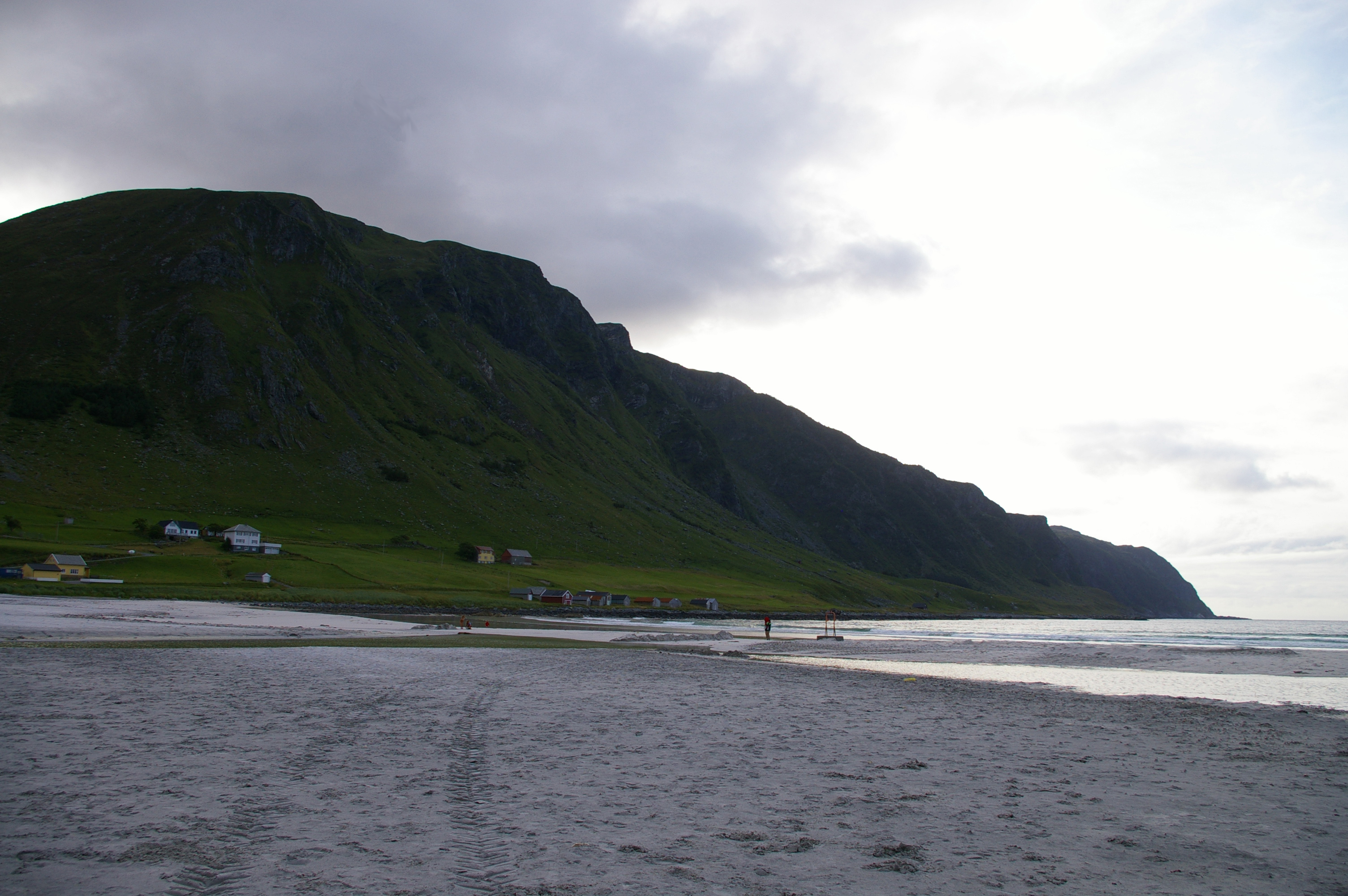 Refvik Beach at Vågsøy, Sogn og Fjordane, Norway